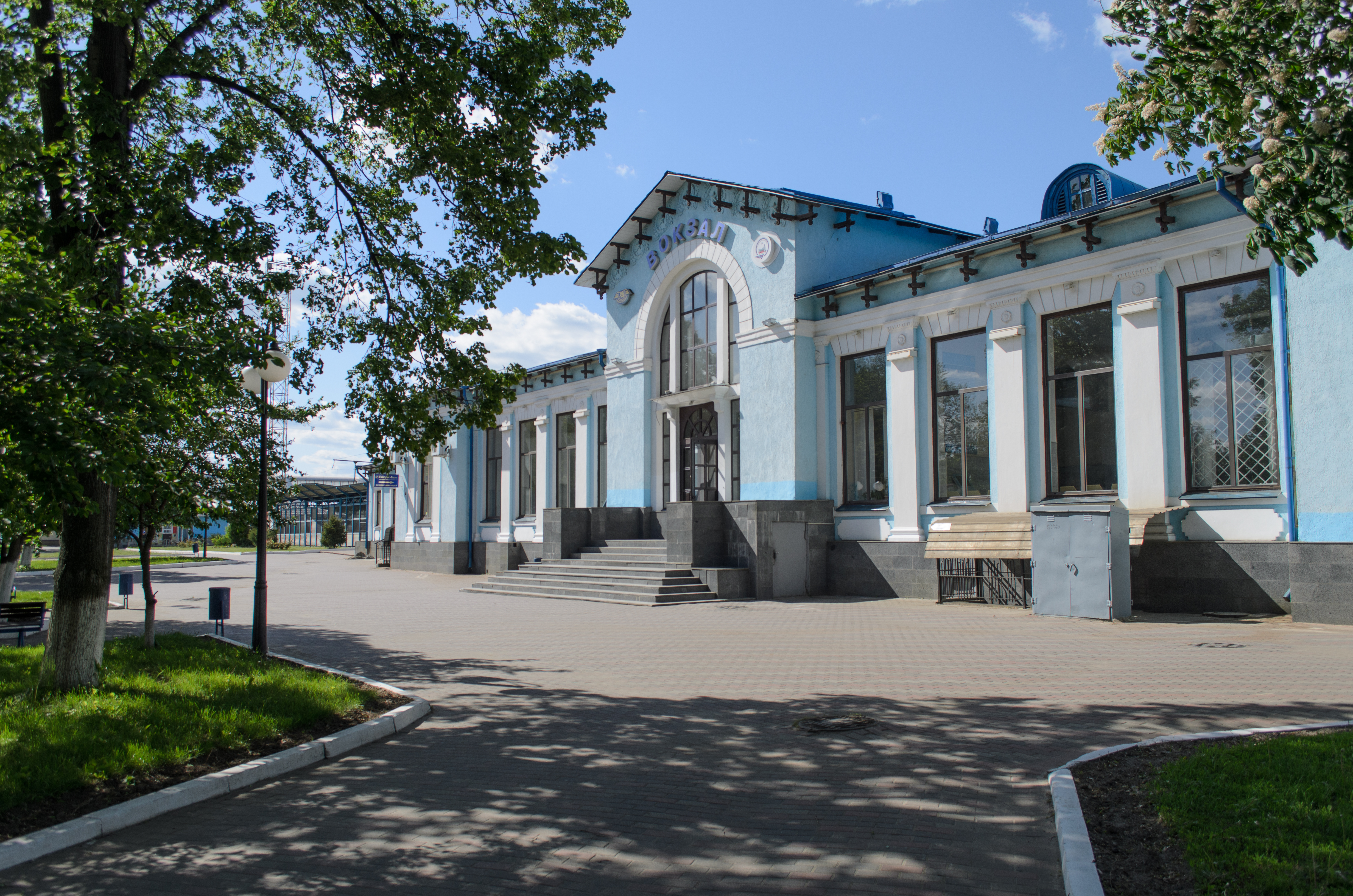 Lyubotyn Train Station